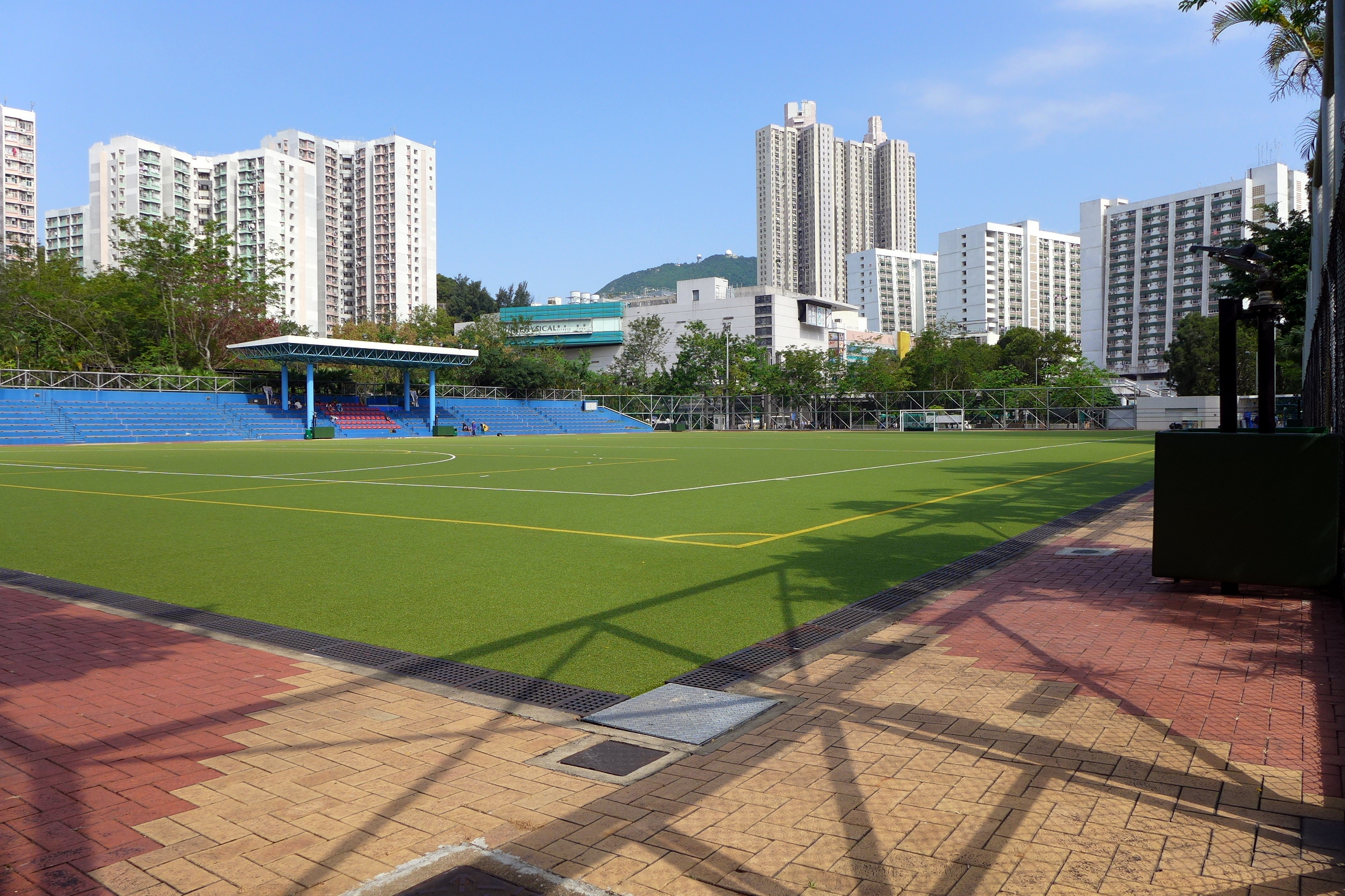 Lok Fu Recreation Ground